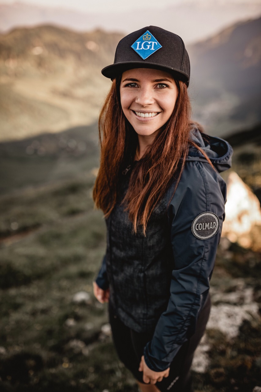 Tina Weirather, Alpine Ski Racer from Liechtenstein